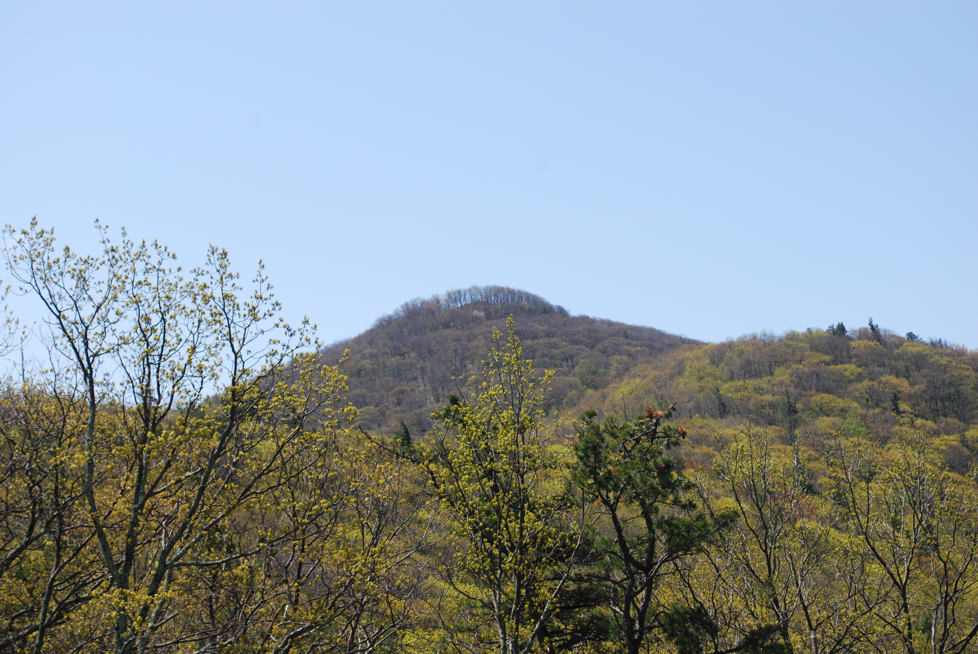 High Knob along Shenandoah Mountain, taken from along the U.S. Route 33 crossing of the mountain. Dark green tree in foreground is Pinus pungens.